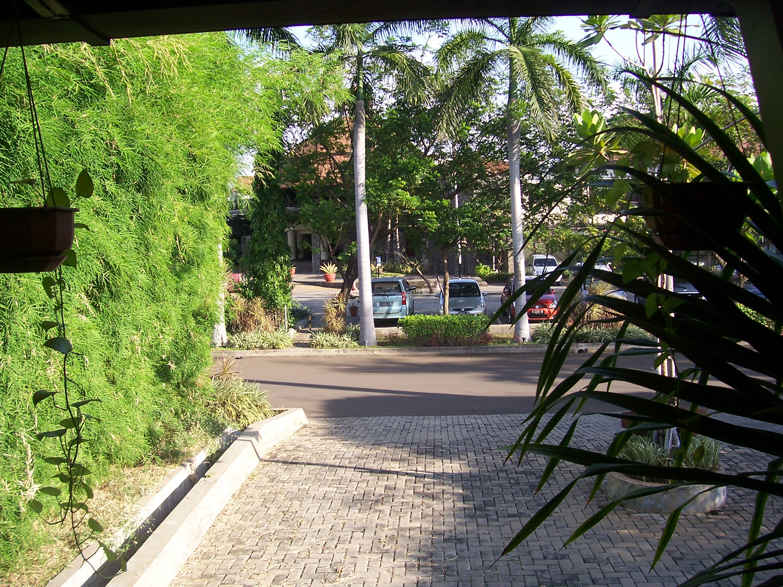 A building in Harapan Indah in Indonesia.